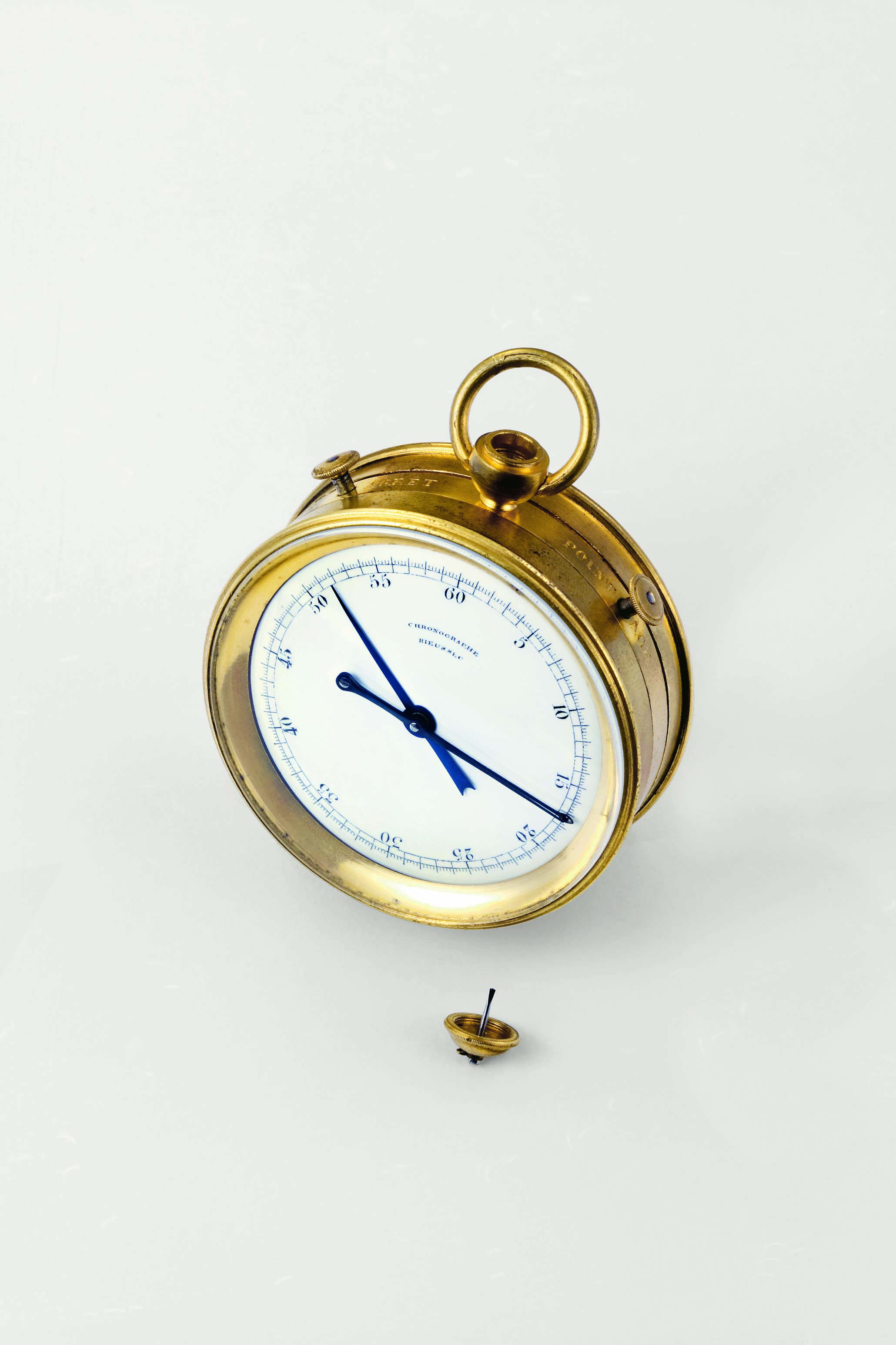 Chronograph invented by Nicolas Rieussec, 1845 – Photographie Dominique Cohas / Fondation de la Haute Horlogerie, Genève, Suisse.